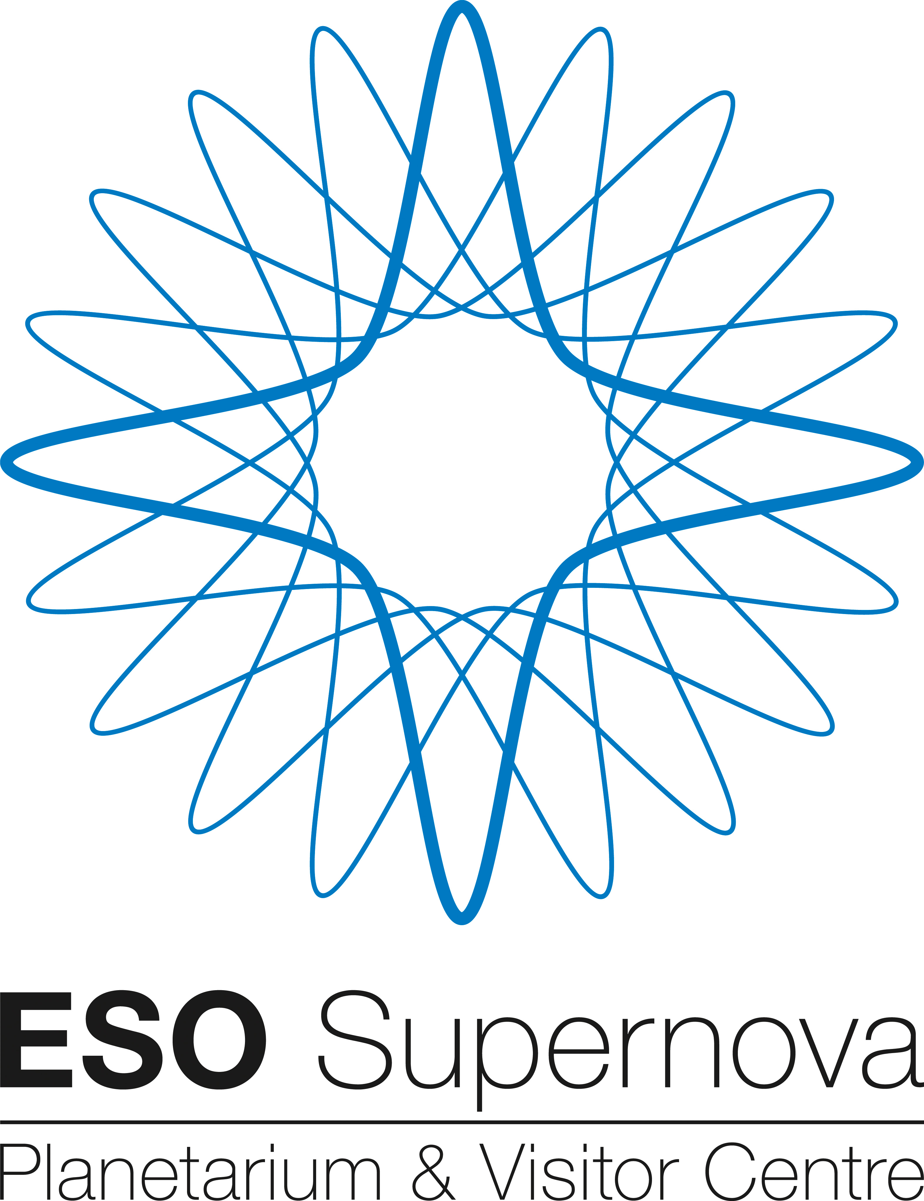 ESO Supernova logo